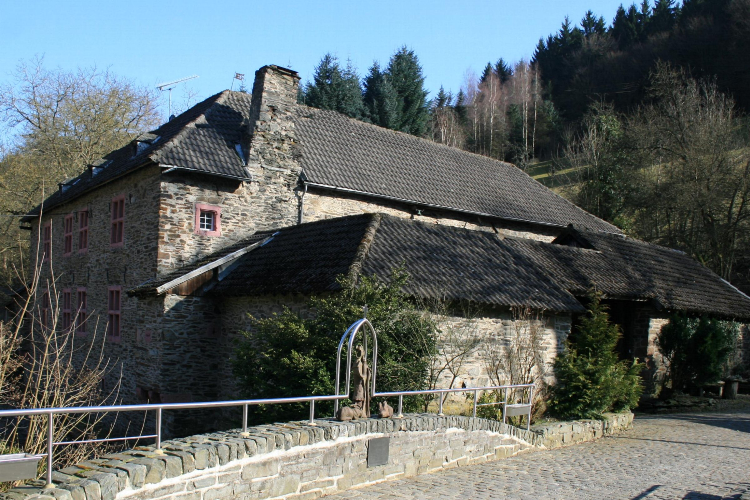 Cultural heritage monument No. 15 in Hürtgenwald